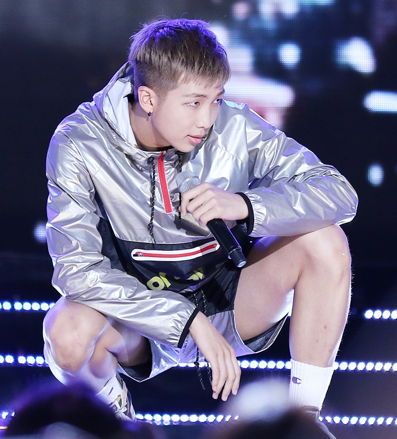 Rap Monster performing during Show Champion, 2 July 2015